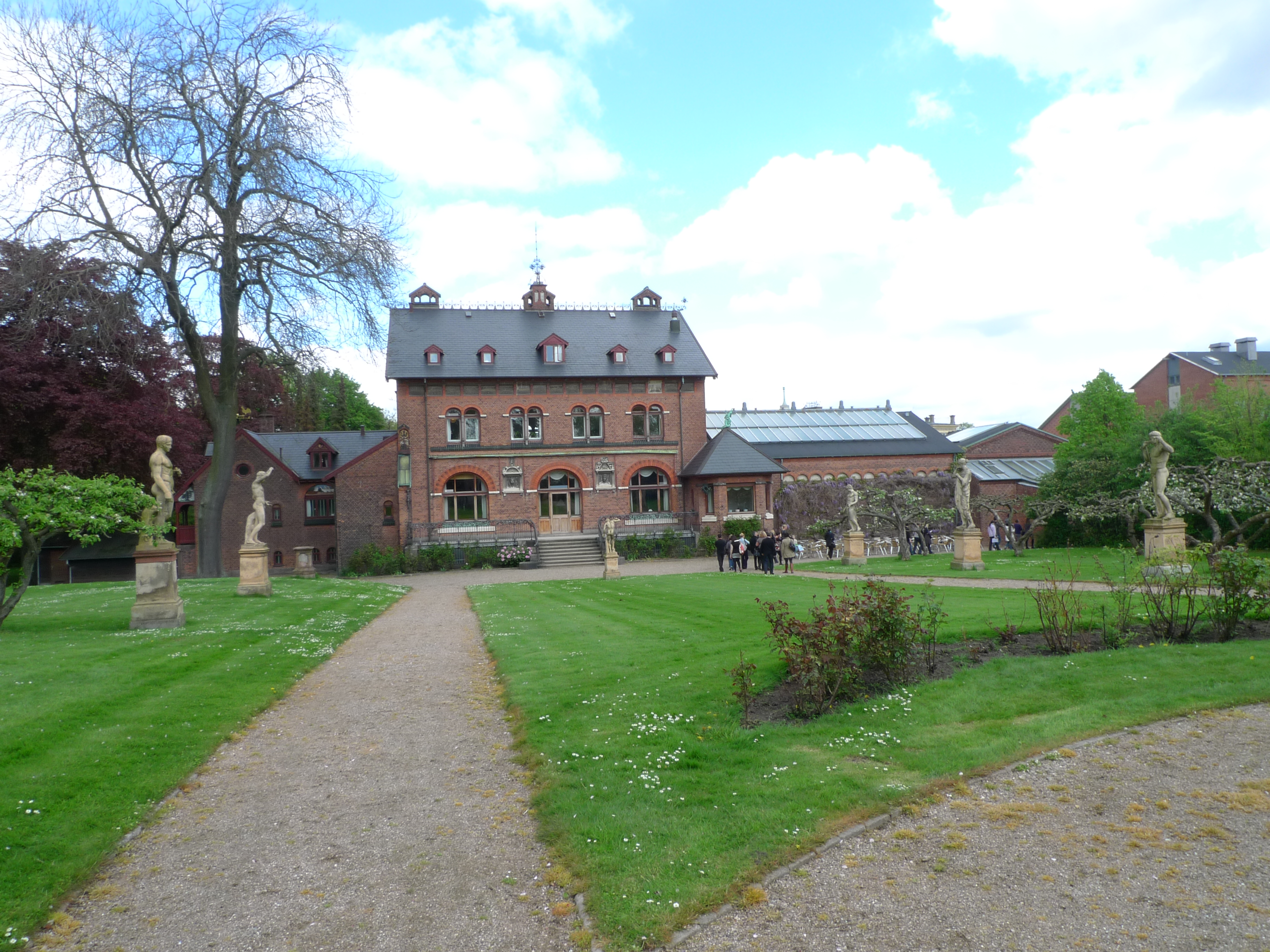 The Carl Jacobsen Garden in the Carlsberg area of Copenhagen, Denmark